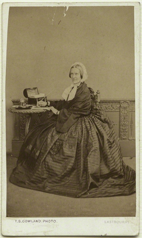 Favell Lee Mortimer (nee Bevan) by Thomas Stafford Gowland, albumen carte-de-visite, mid-late 1860s. 3 3/4 in. x 2 in. (94 mm x 52 mm). Given by Curtis, Campbell & Co, 1929